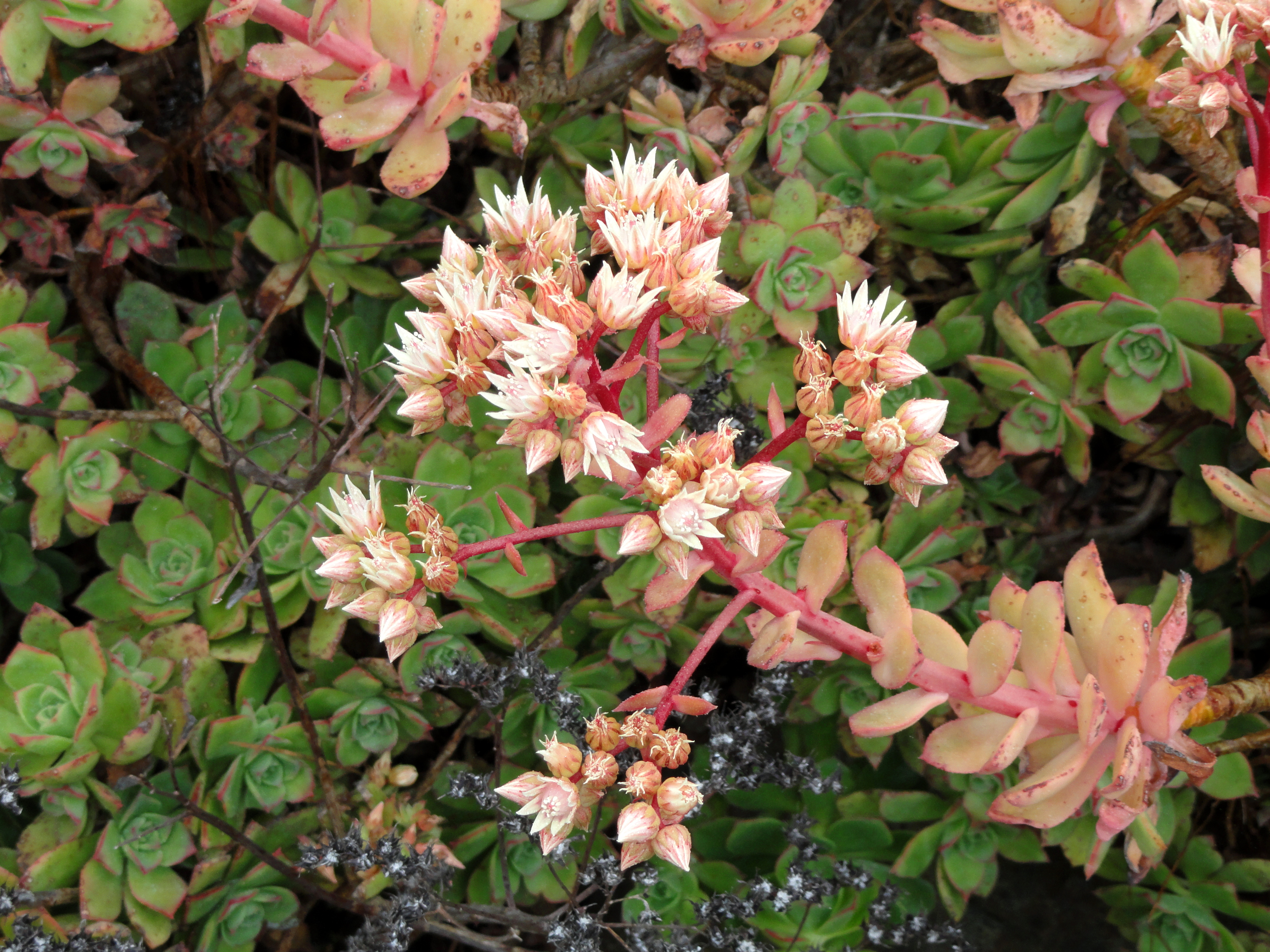 Aeonium castello-paivae specimen in the University of California Botanical Garden, Berkeley, California, USA.